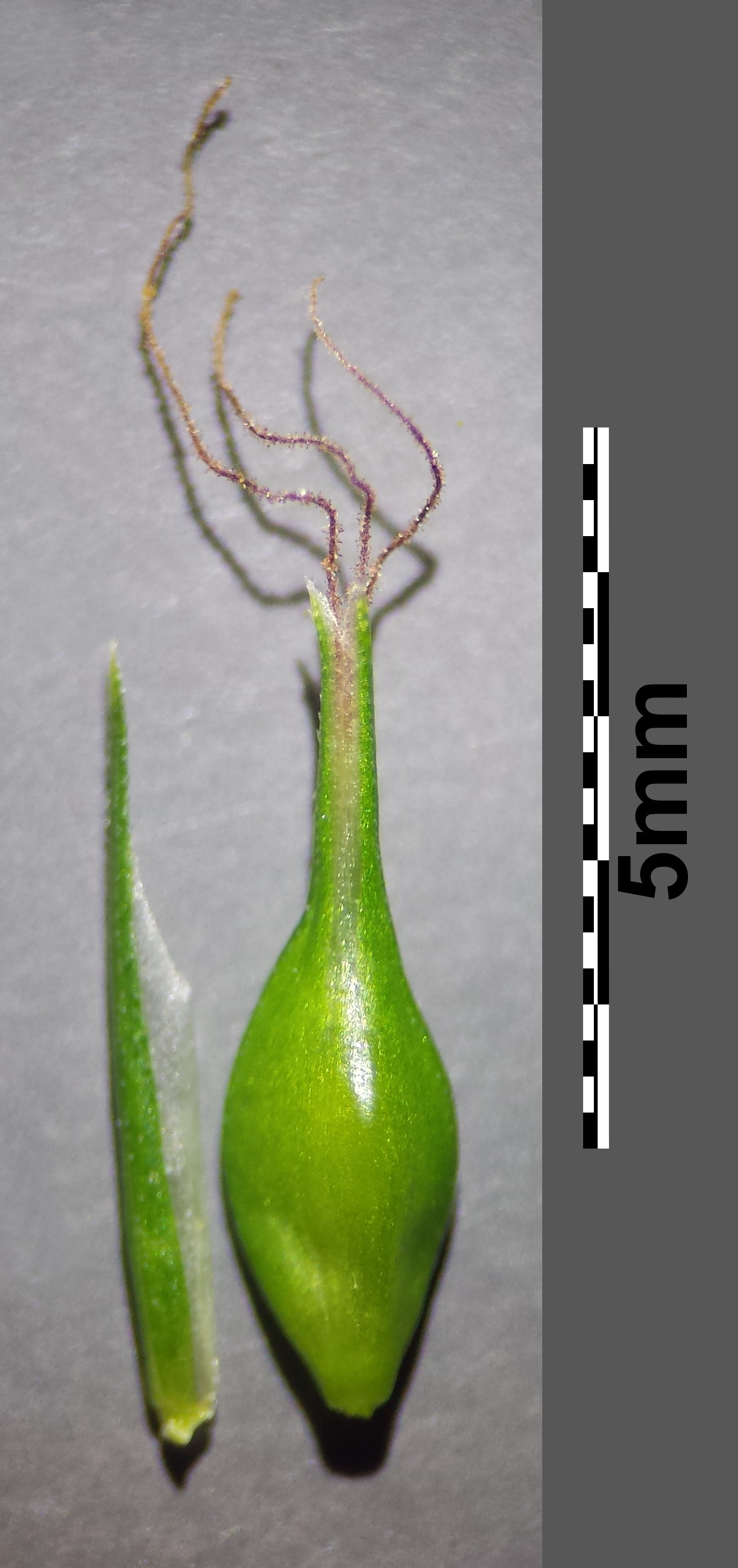 Utricle with glume Taxonym: Carex sylvatica ss Fischer et al. EfÖLS 2008 ISBN 978-3-85474-187-9 Location: Michelberg, district Korneuburg, Lower Austria - ca. 330 m a.s.l. Habitat: Carpinion betuli